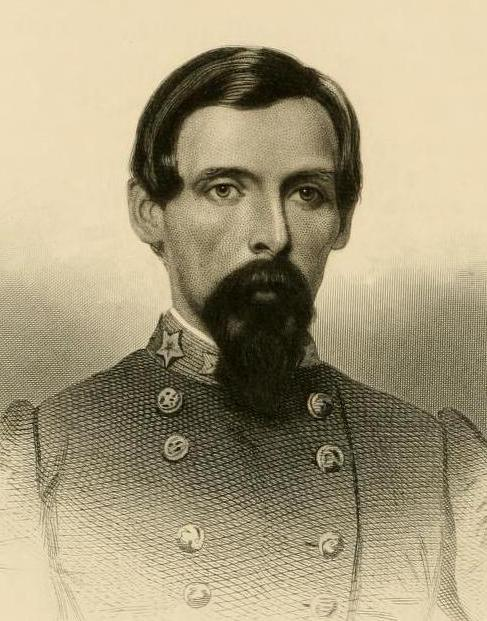 Garland, Samuel, Jr., head and shoulders portrait. Published in: John Lipscomb Johnson. The University Memorial: Biographical Sketches of Alumni of the University of Virginia who Fell in the Confederate War. Baltimore, MD: Turnbull Brothers, 1871, p. 263.